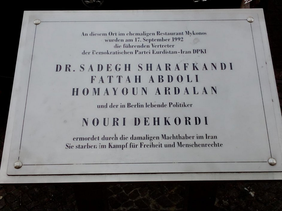 The picture shows the monument inscription in front of the Restaurant Mykonos, where the four kurdish politicians, Dr. Sadegh Sharafkandi, Fattah Abdoli, Homayoun Ardalan and Nouri Dehkordi have been killed by an Squad-Team of the Iranien Goverment on 9. 17th. 1992, which partly have been sentenced to lifetime prision in Berlin.